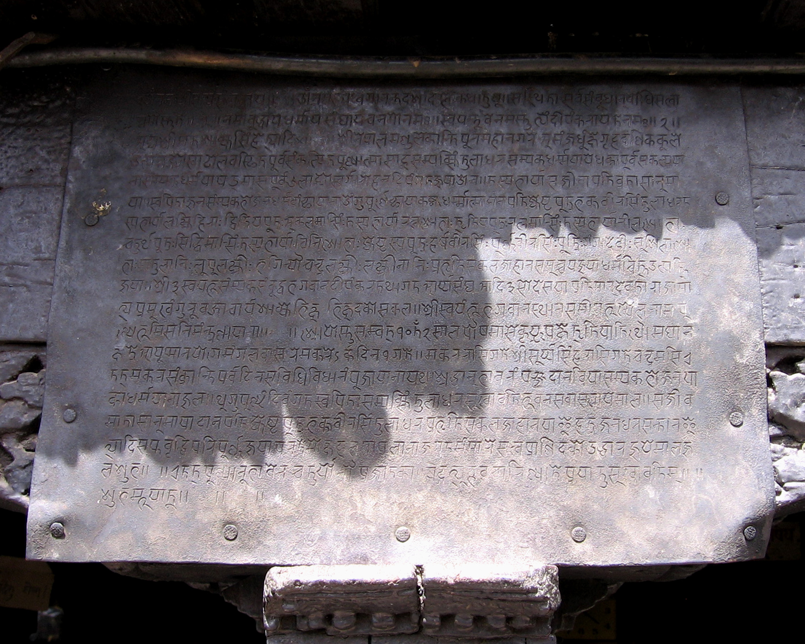 Copper plate inscription at Swayambhu, Kathmandu, Nepal in Nepal script dated Nepal Sambat 1072 (1952 AD) about the holding of a Samyak festival.